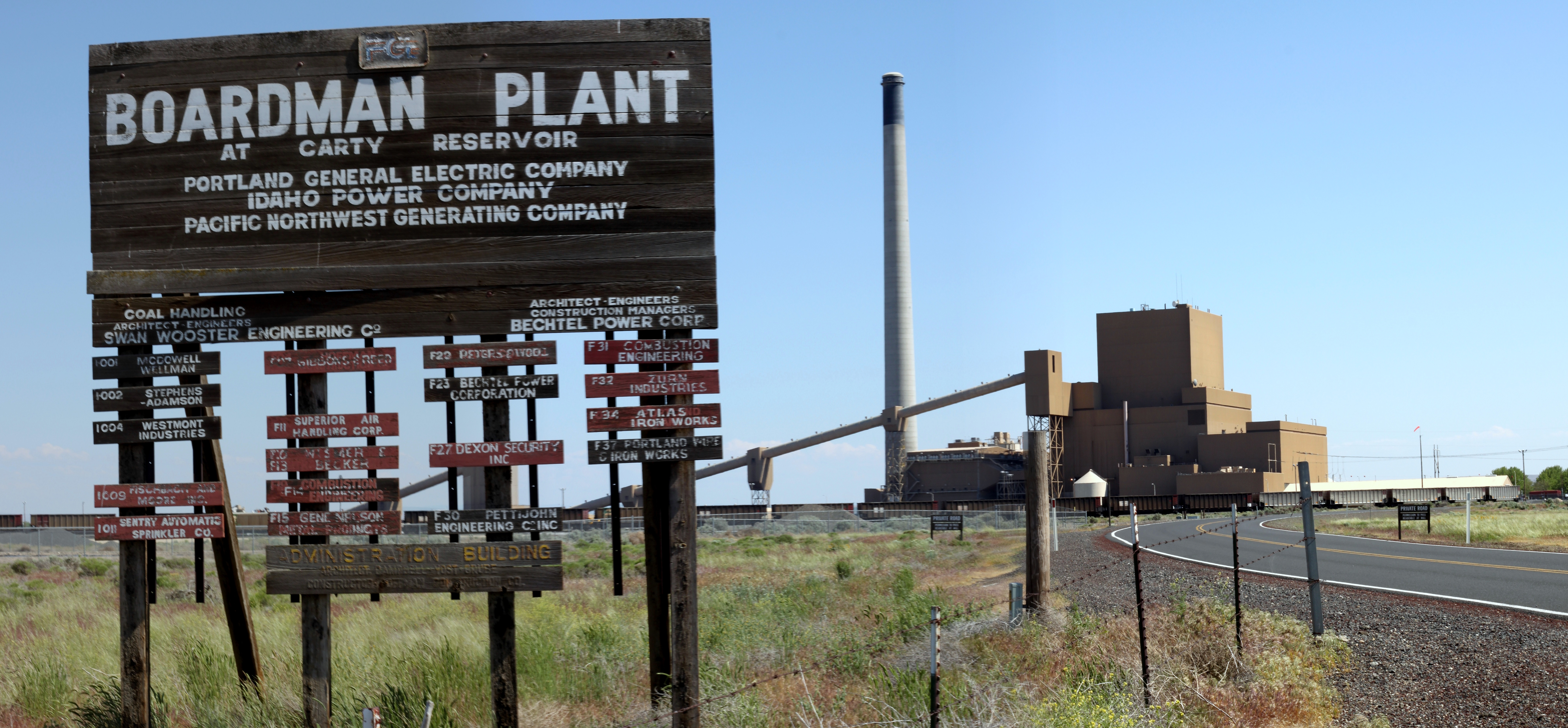 Boardman Coal Plant near Boardman, Oregon